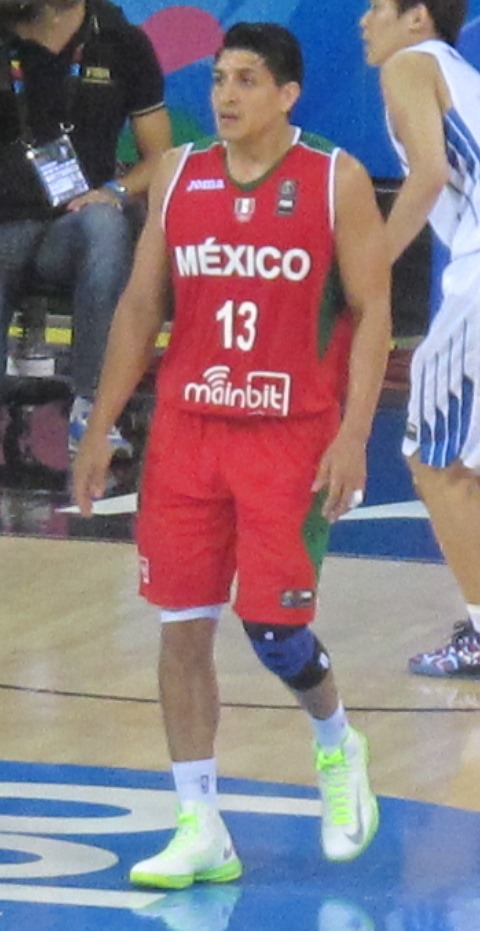 taken during 2014 Basketball World Cup